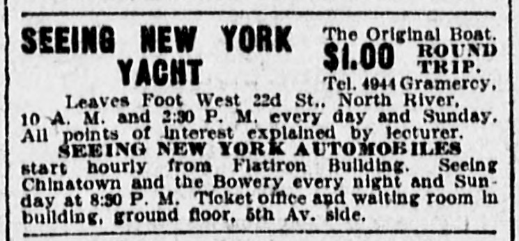 Ad with text: "SEEING NEW YORK YACHT. The Original Boat. $1.00 ROUND TRIP. Tel. 4944 Gramercy, Leaves Foot West 22d St., North River, 10 A. M. and 2:30 P. M. every day and Sunday. All points of interest explained by lecturer. SEEING NEW YORK AUTOMOBILES start hourly from Flatiron Building. Seeing Chinatown and Bowery every night and Sunday at 8:30 P. M. Ticket office and waiting room in building, ground floor, 5th Av. side." Section 3, p. 36.